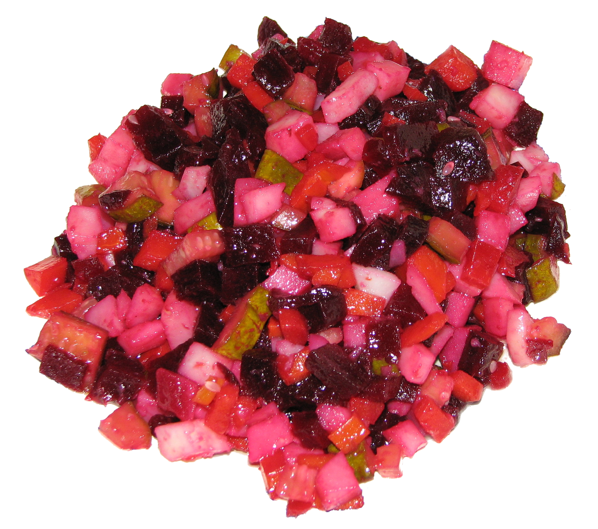 Vinegret (Russian Vinaigrette) salad